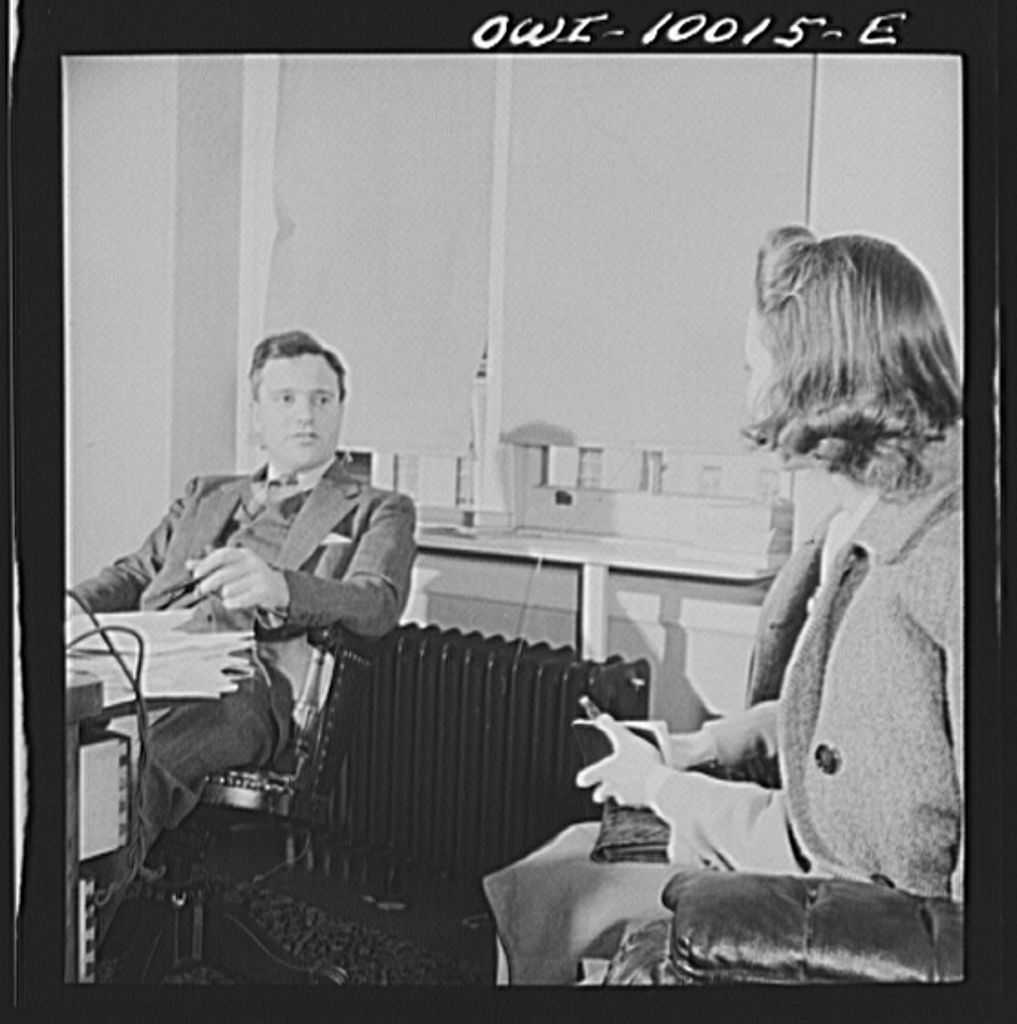 Title: Washington, D.C. Under the auspices of the Bureau of University Travel and the National Capital School Visitors' Council, over 200 high school students chosen for their intellectual alertness visited Washington for a week. Congressman Tom Eliot of Massachusetts chatting with a delegate from his state